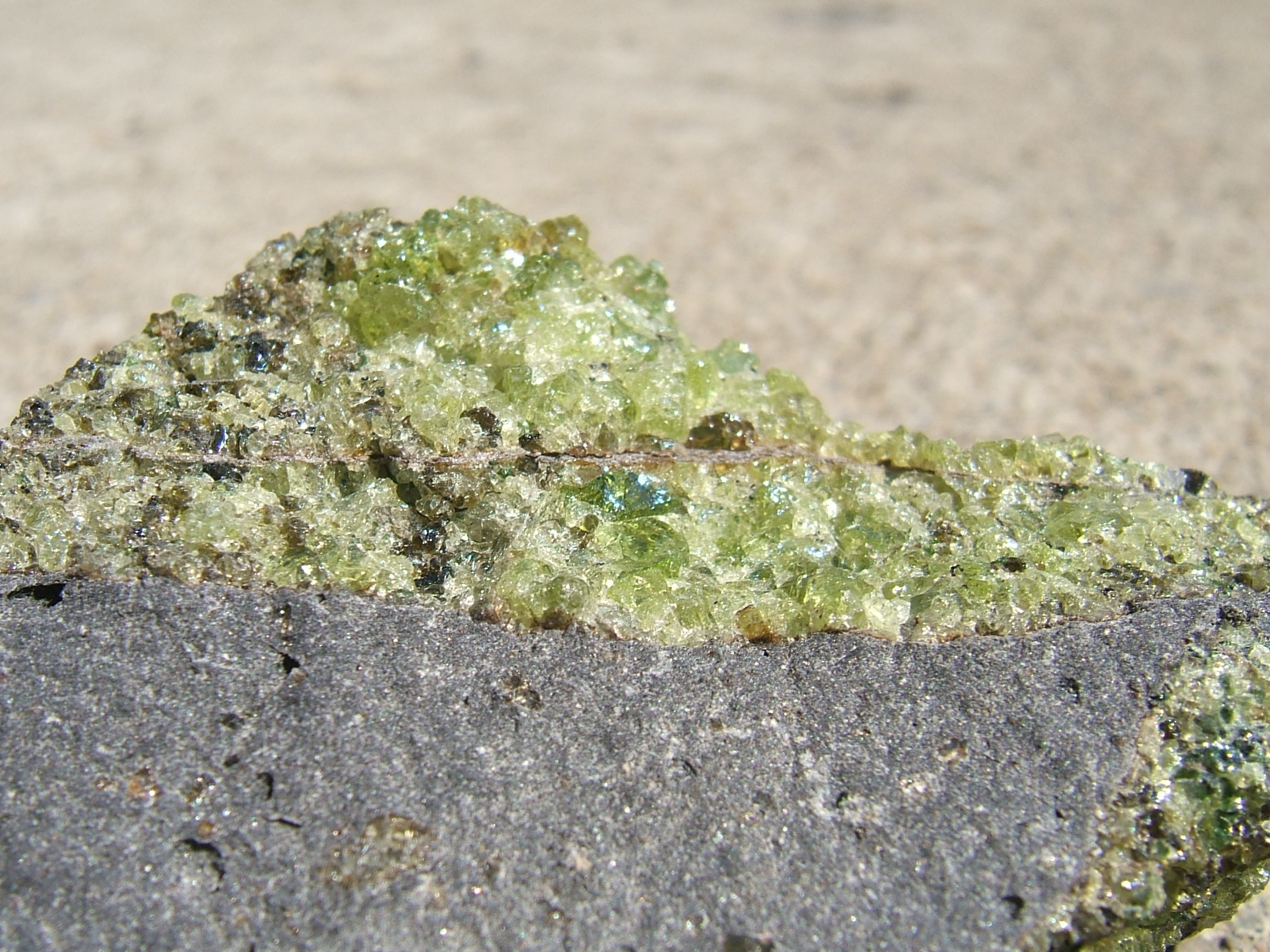 Olivine (var. peridot; green) with minor pyroxene (brown) on vesicular basalt. San Carlos, Arizona, USA. Field of view is approx. 35mm wide.